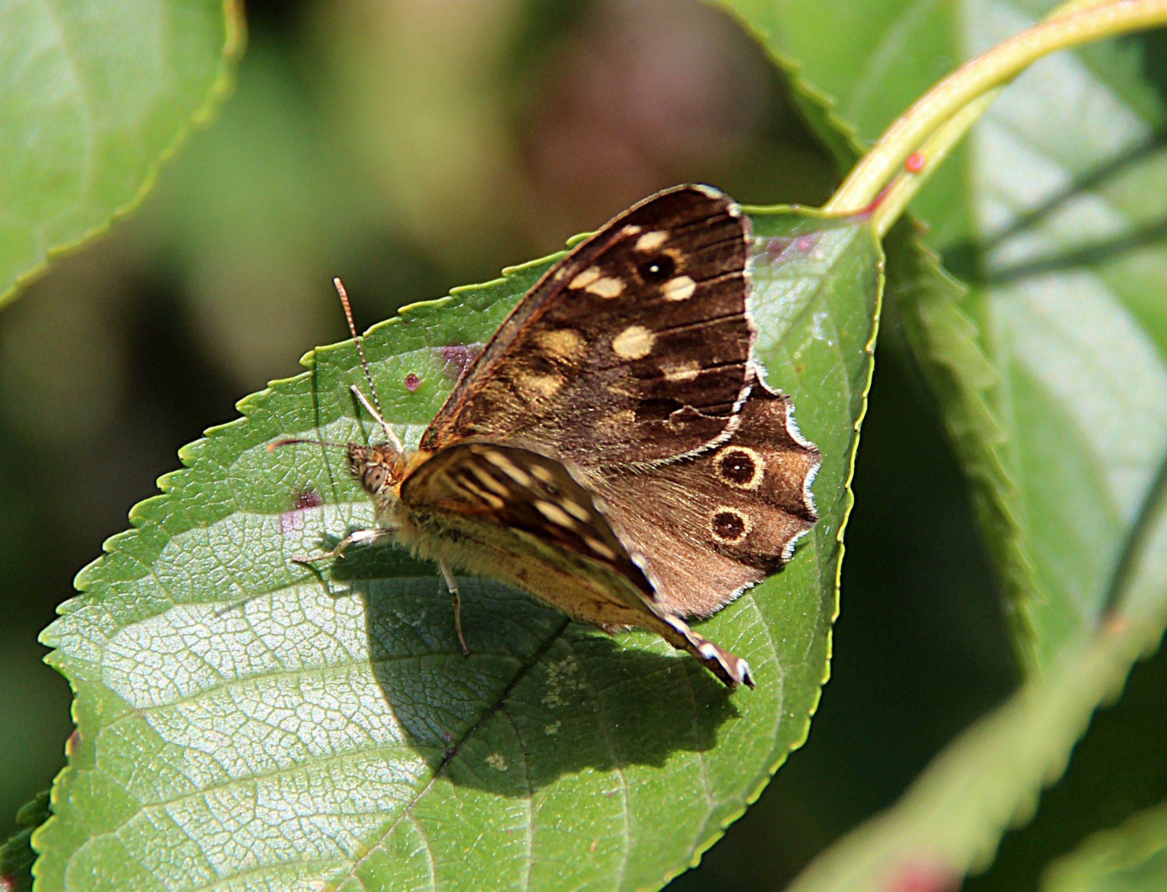 Speckled Wood - Pararge aegeria - Havré, Belgium